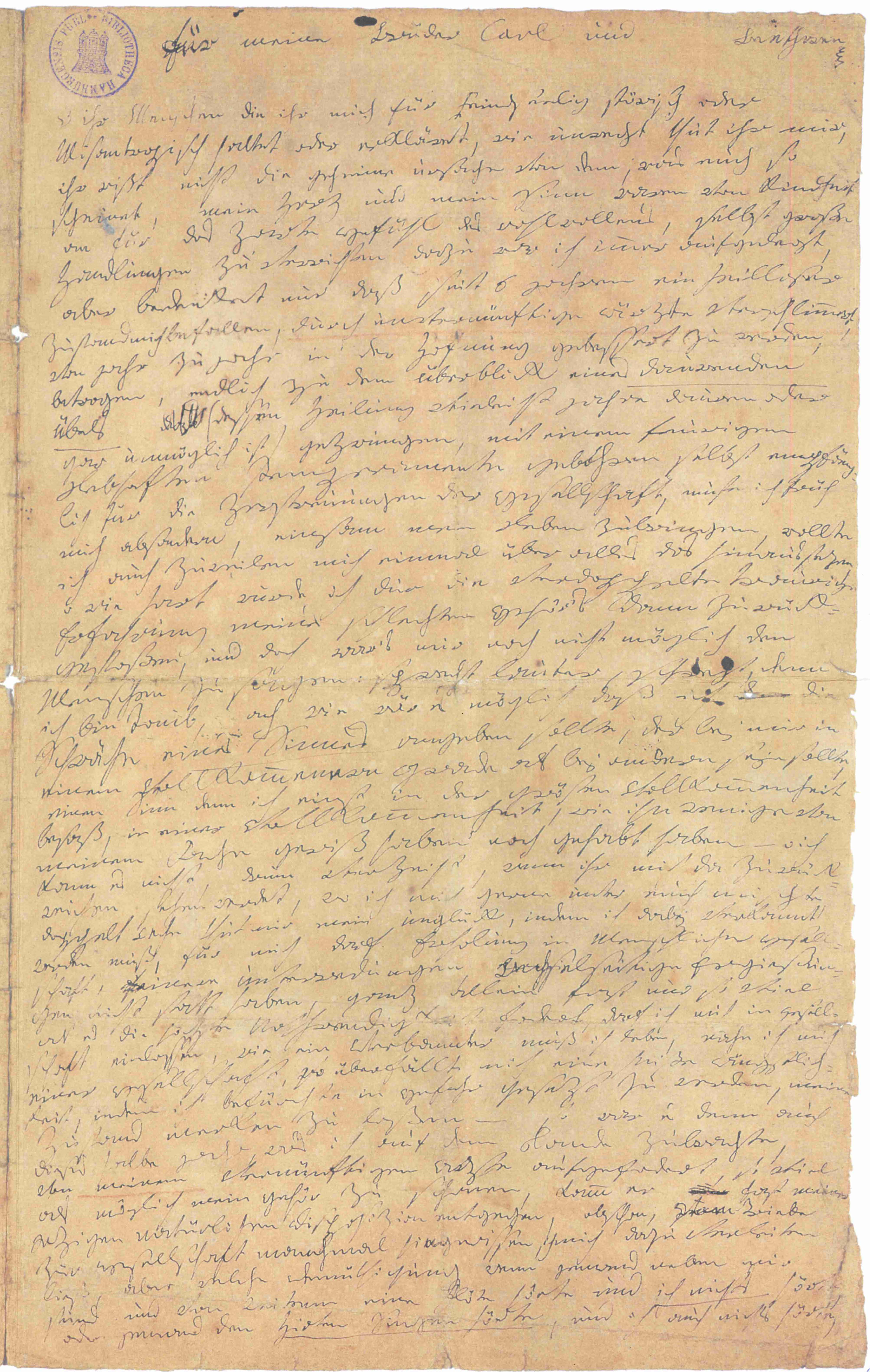 First page of Beethoven's "Heiligenstädter Testament"